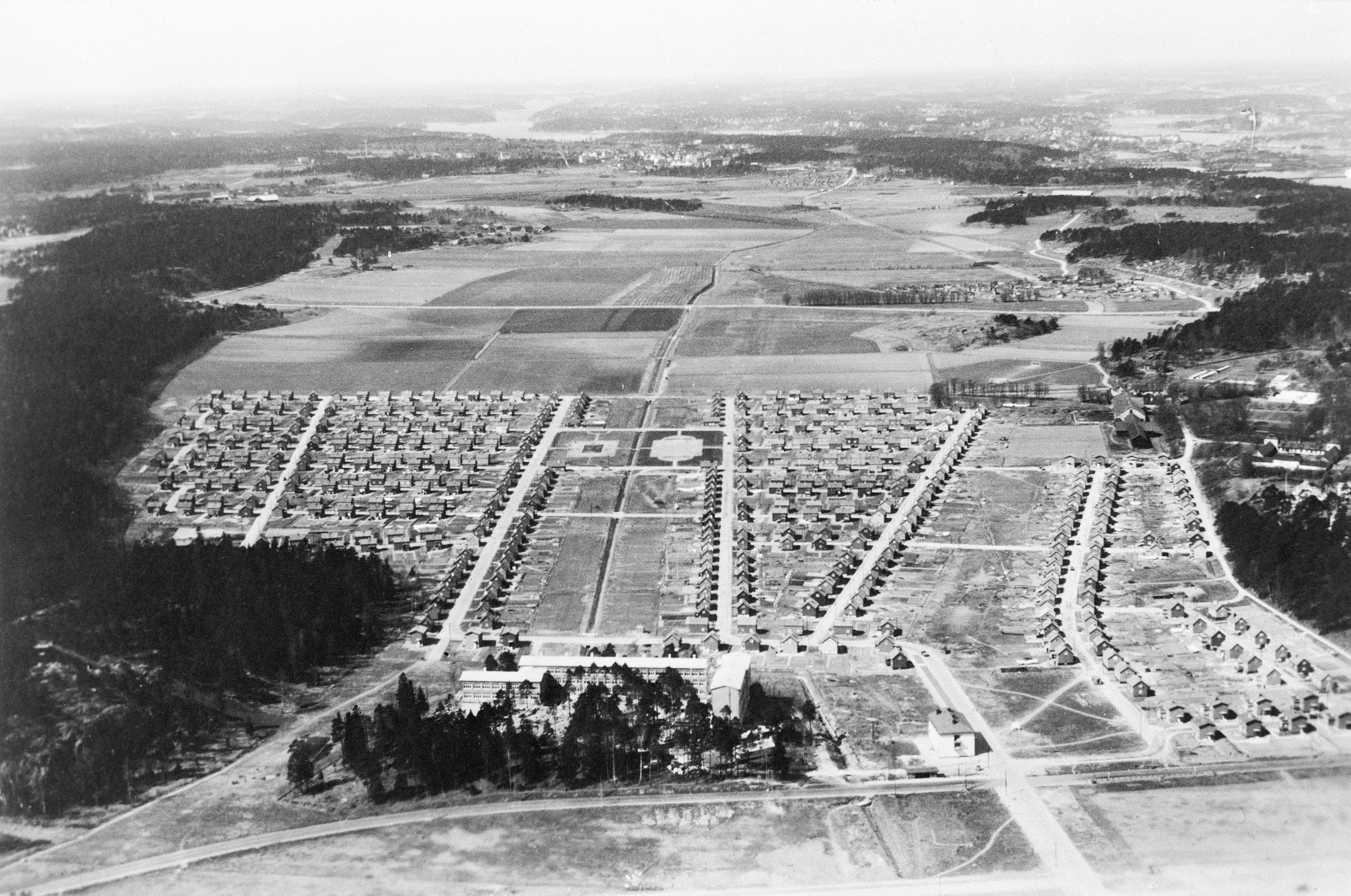 FOTOGRAFIFlygvy mot nordväst över Enskede- och Årstafältet med Östberga, Västberga, Midsommarkransen, Aspudden och Årsta i fonden. Till vänster syns Enskede gård. 1932-1932FOTOGRAF: Bladh, Oscar.BILDNUMMER: Fa 10229Stadsmuseet i Stockholm